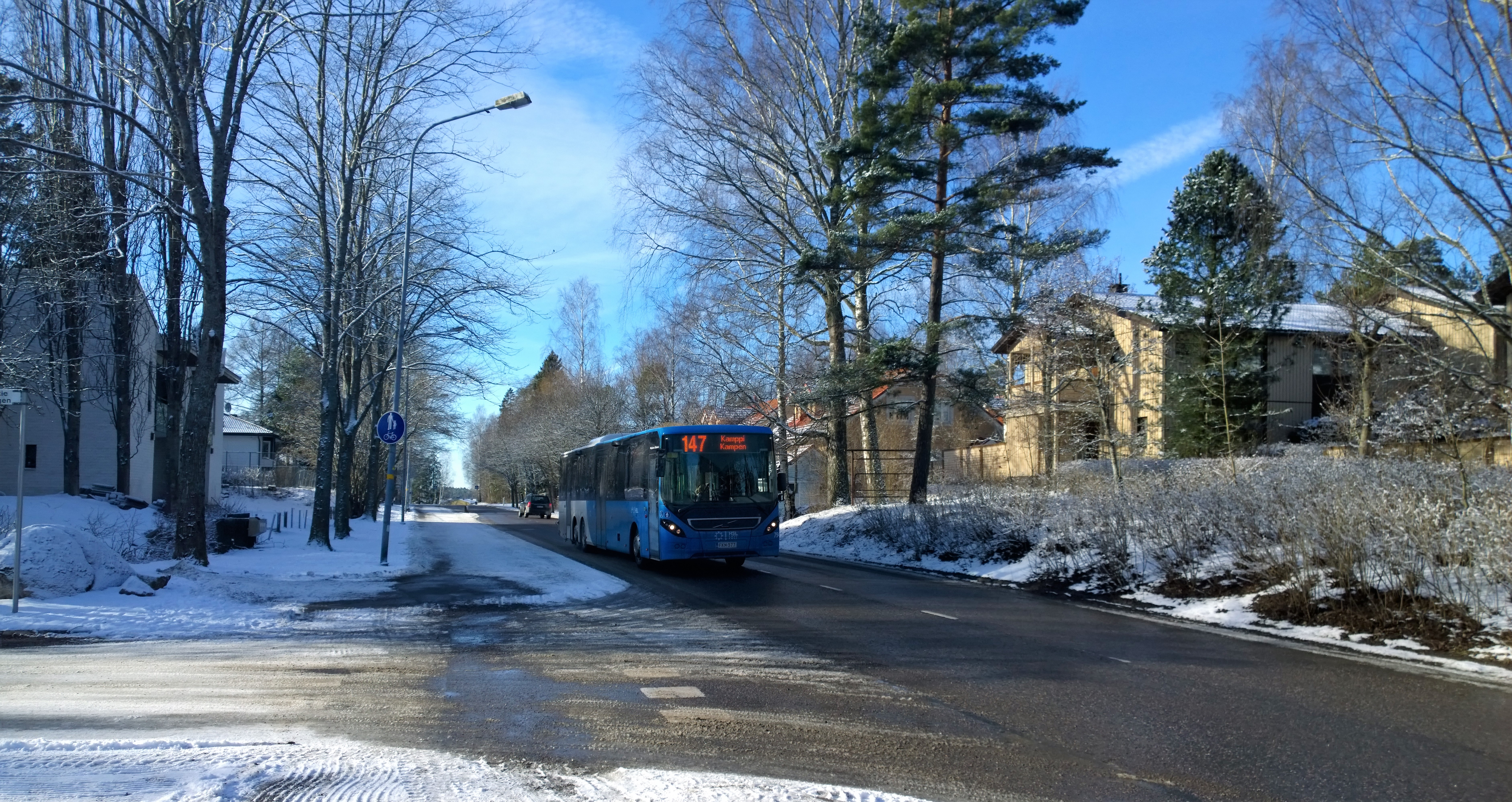 Bus 147 on Laurinlahdentie